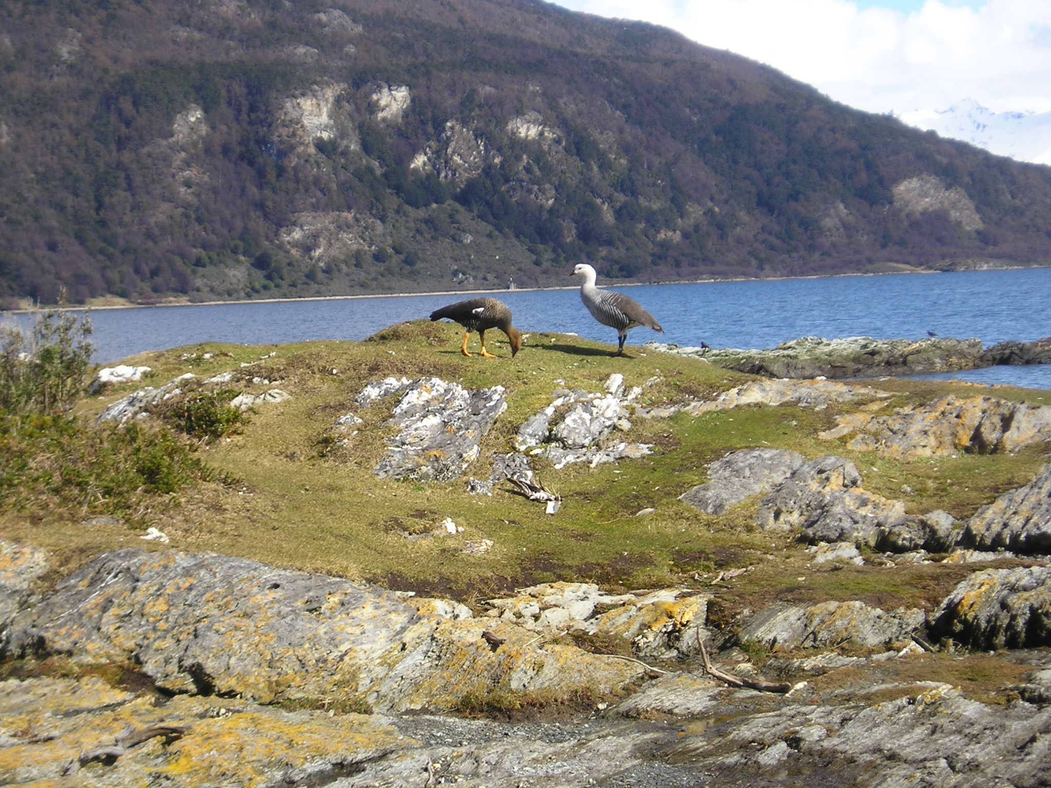 Female (left) and male (right) Magellan Goose - Cauquén común (Chloephaga picta). Photo taken in the Tierra del Fuego National Park, a few km west of Ushuaia, Argentina.